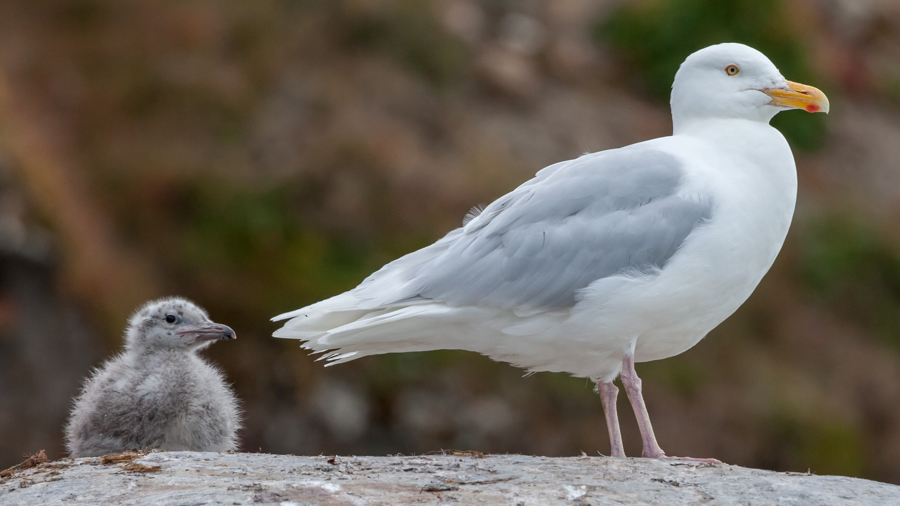 Glaucus gulls (Larus hyperboreus) are the biggest gull species on Svalbard; they usually take over the functions of raptors in this region. Some thousand bird couples are breeding on the archipelago in summer.